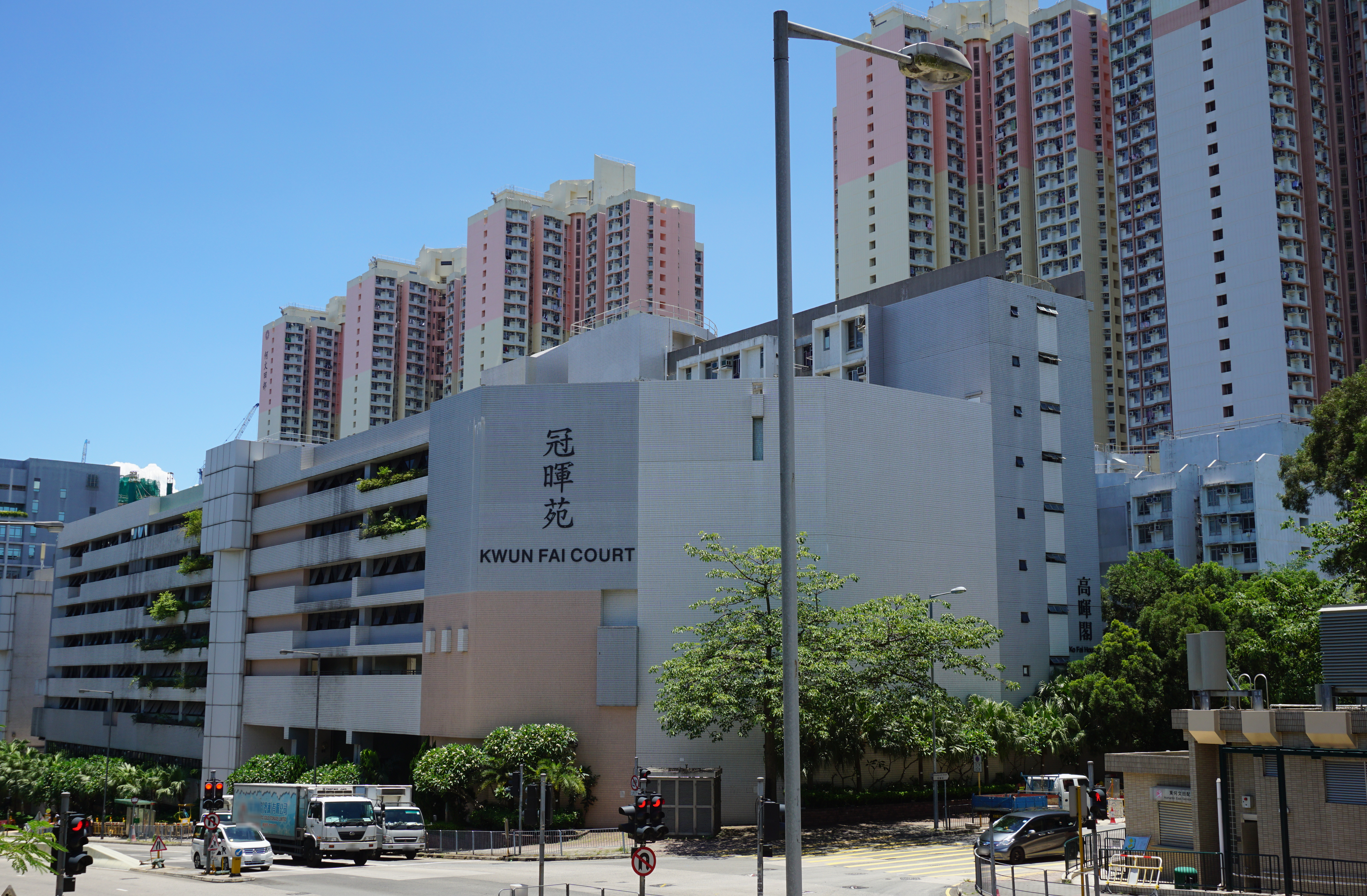 Kwun Fai Court in Ho Man Tin, Hong Kong.